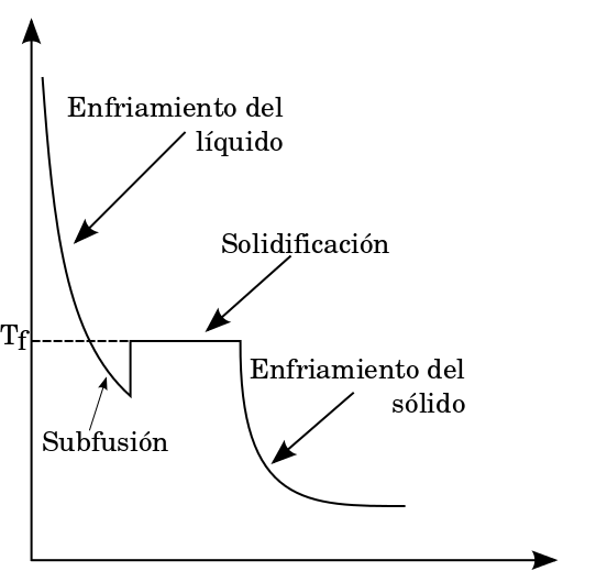 Graphic which depicts the supercooling phenomenon.